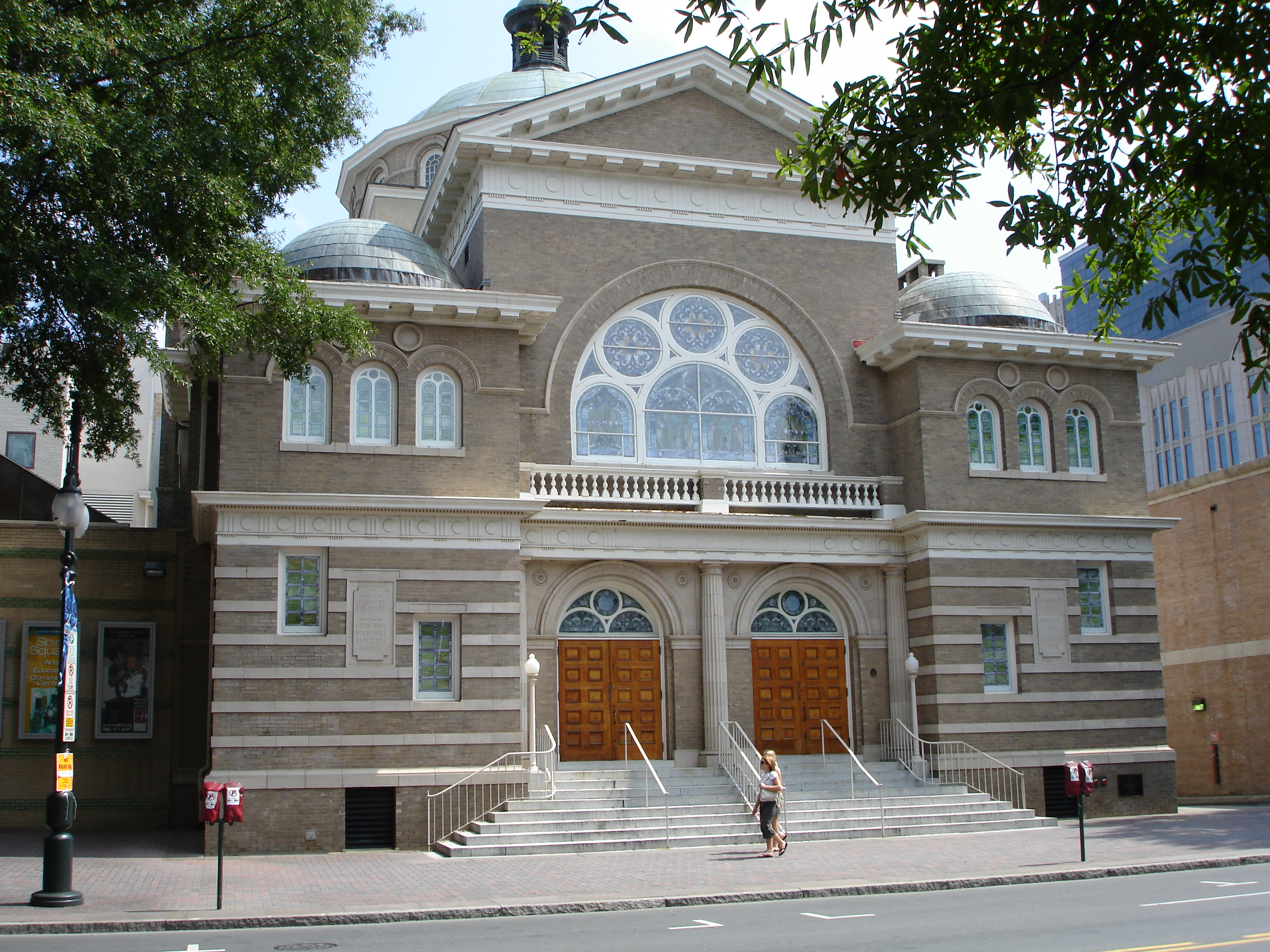 Spirit Square Center for the Arts